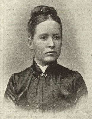 Hedda Andersson (1861-1950), Swedish physician